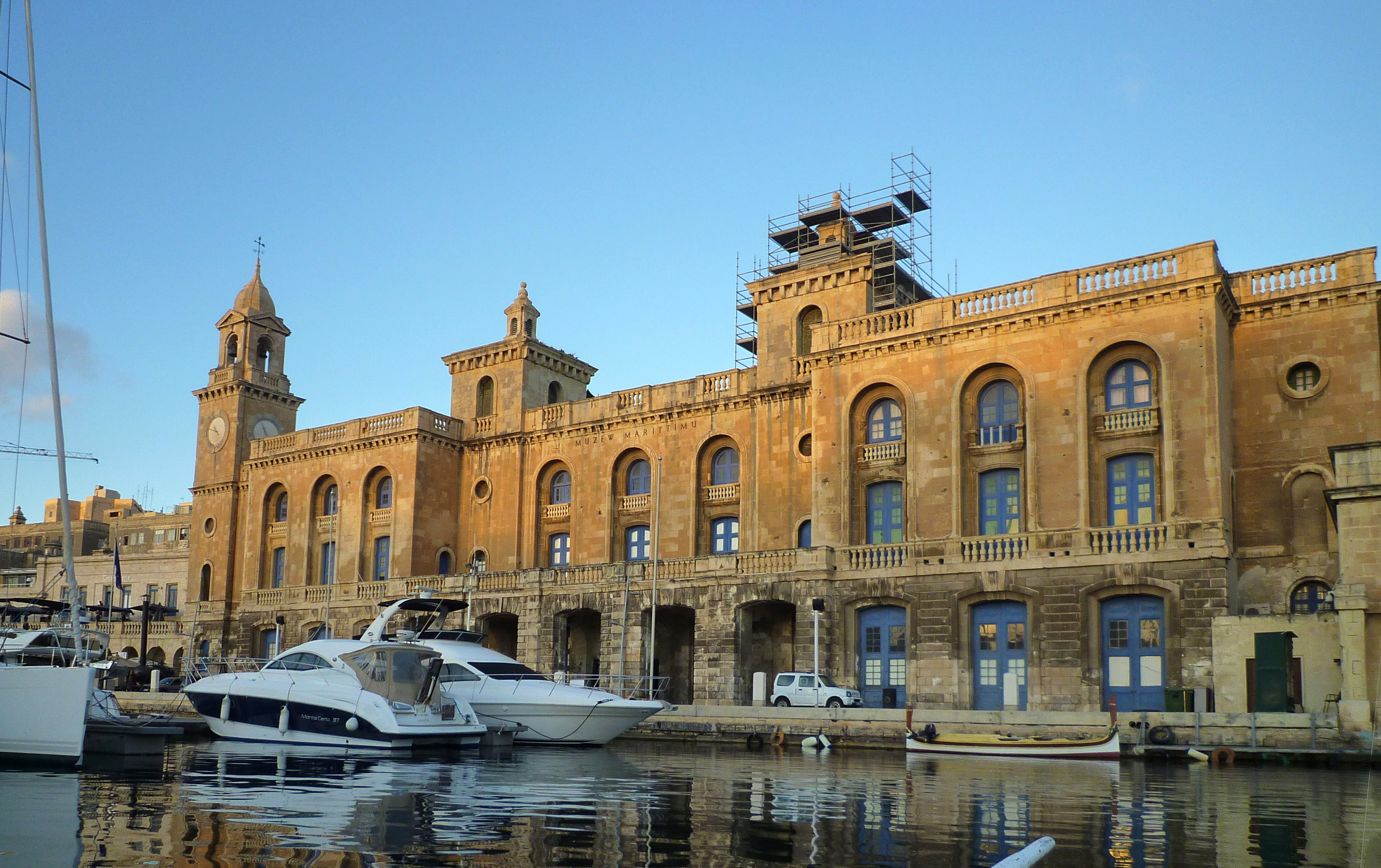 The old Naval Bakery building in Il-Birgu (Citta Vittoriosa), now housing the Maritime Museum of Malta